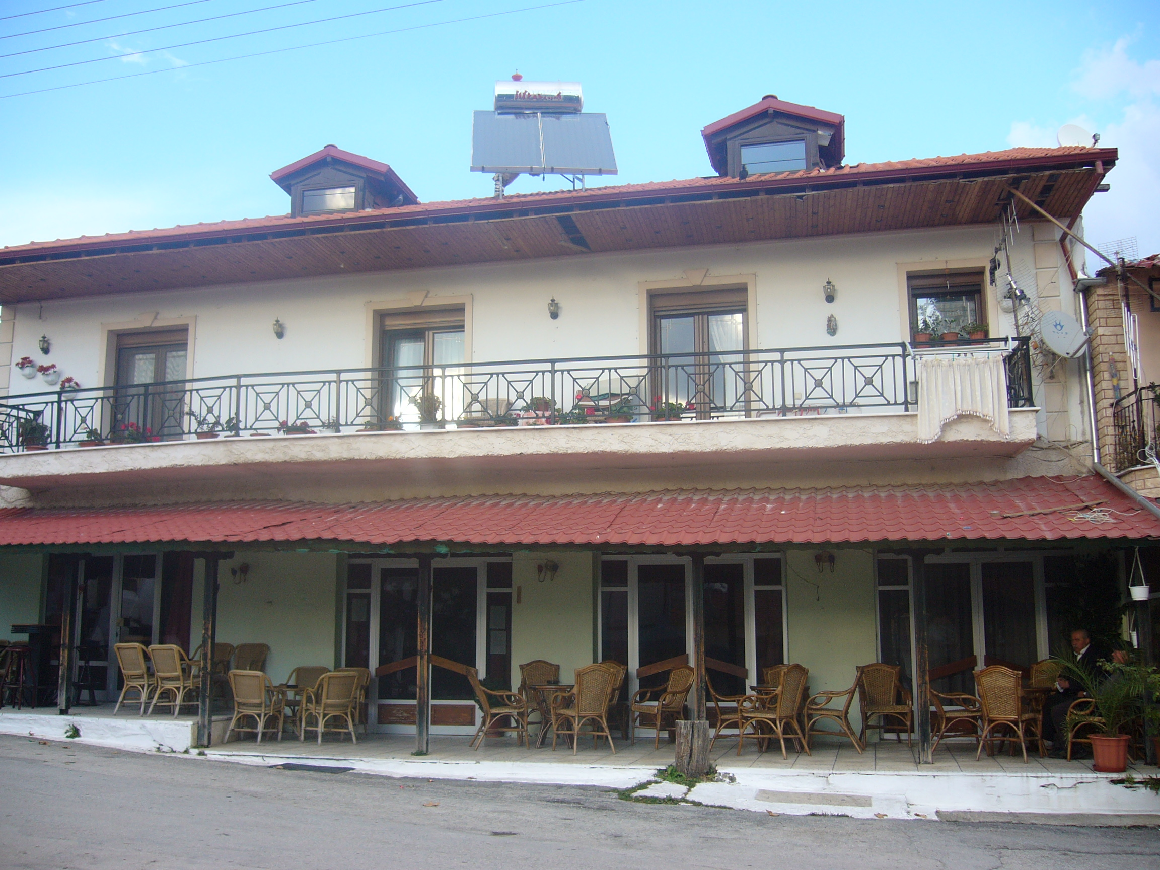 A KAfeneio (coffee house in the village of Kelli, Aegean Macedonia, Greece.